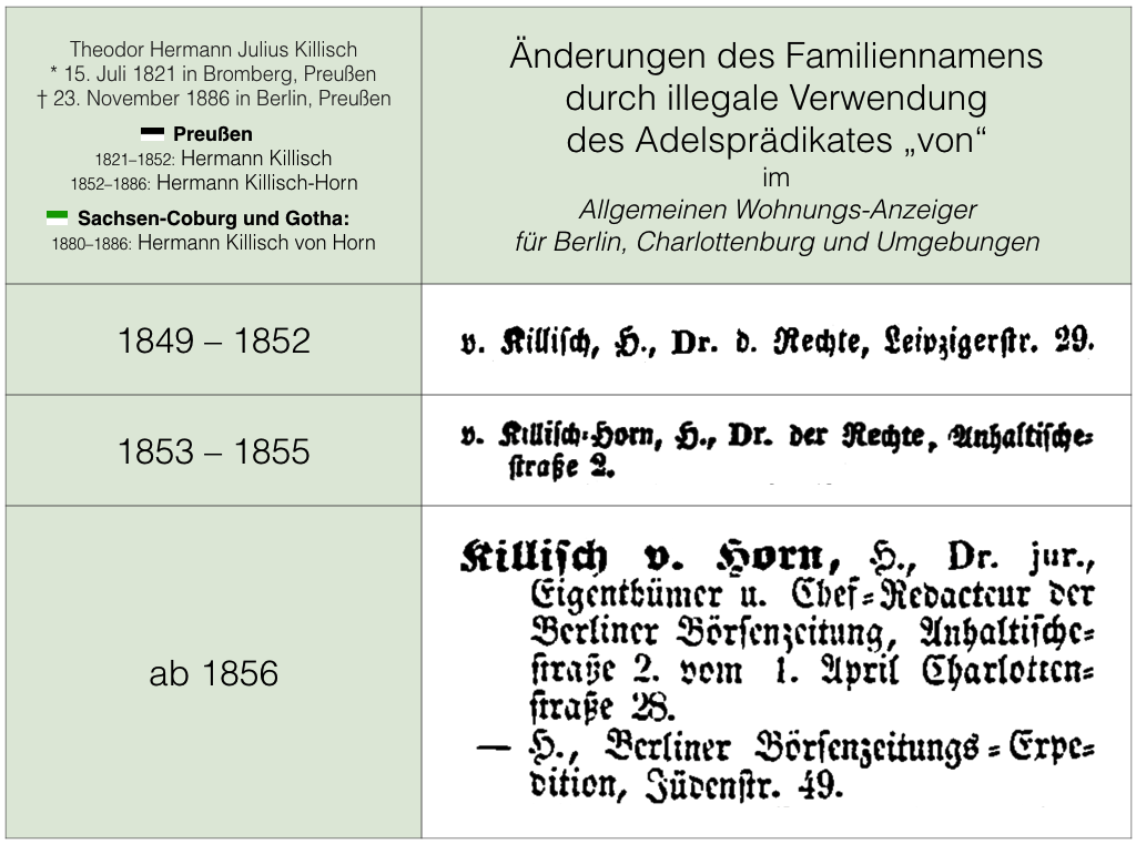 Illegal name changes of Hermann Killisch or Hermann Killisch-Horn (1821–1886) respectively adding a nobiliary particle. Illegal in Prussia during his entire life, in 1880, six years before his death he succeeded to buy such title in the ernestine duchy of Saxe-Coburg and Gotha whose use was legal only there.